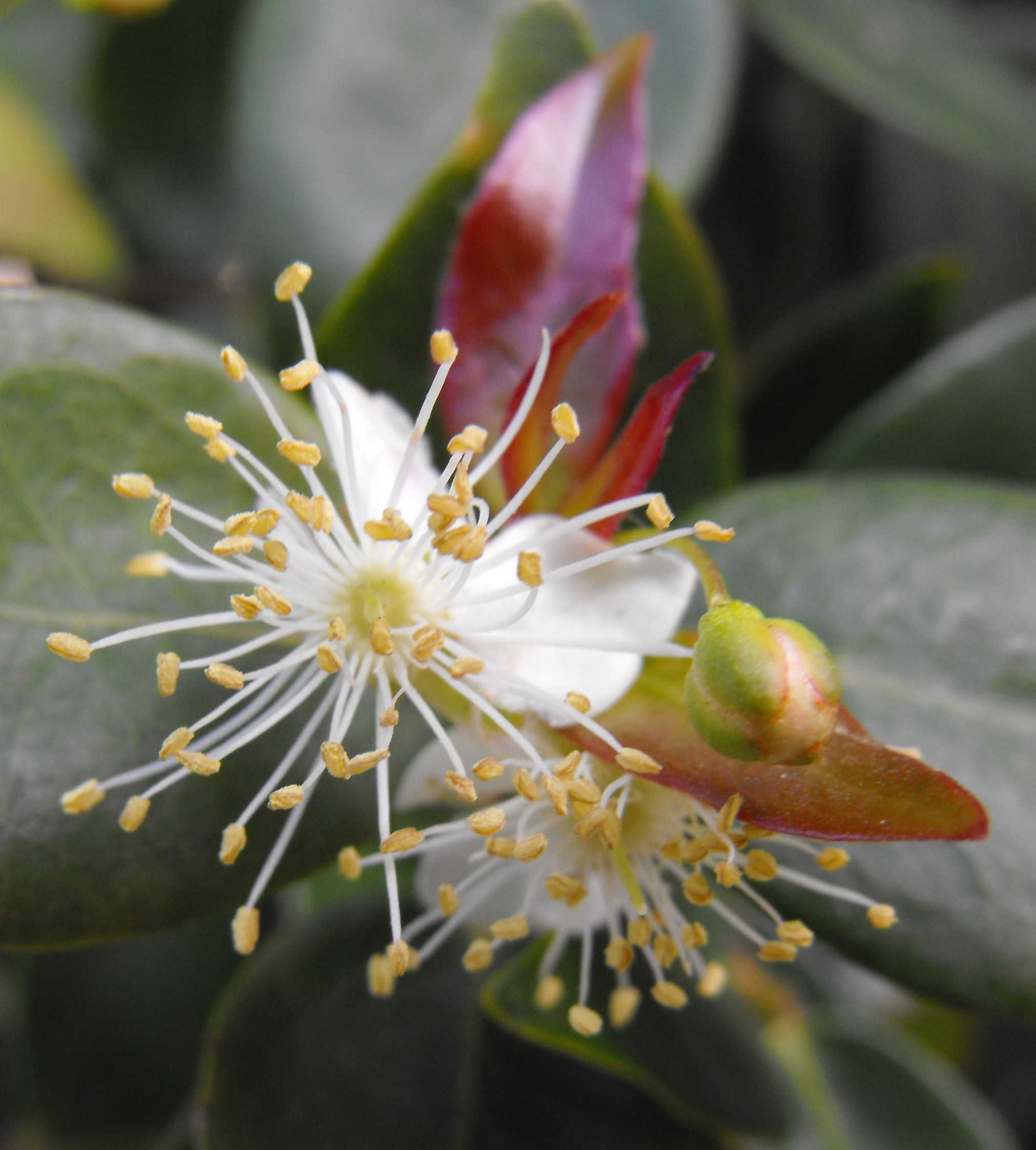 Eugenia uniflora at the San Diego Home & Garden Show, California, USA. Identified by exhibitor's sign.